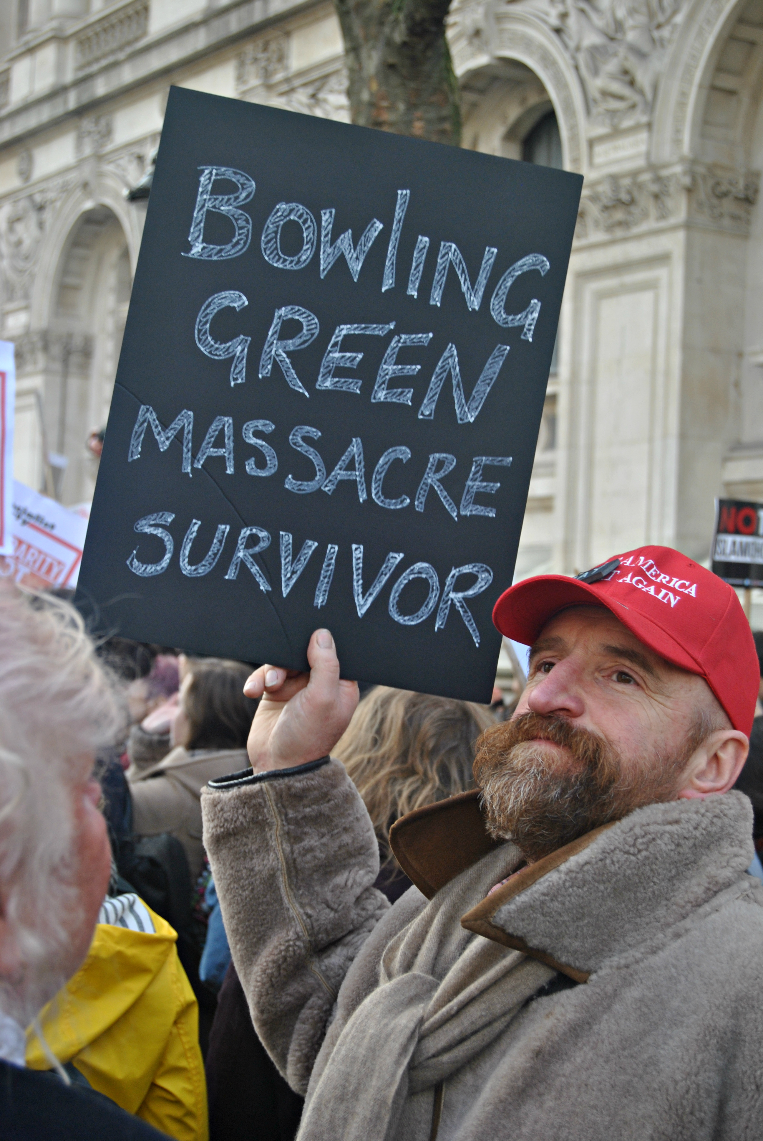 Protestor holding sign reading "Bowling Green Massacre Survivor" at a protest in London, England on February 4th 2017